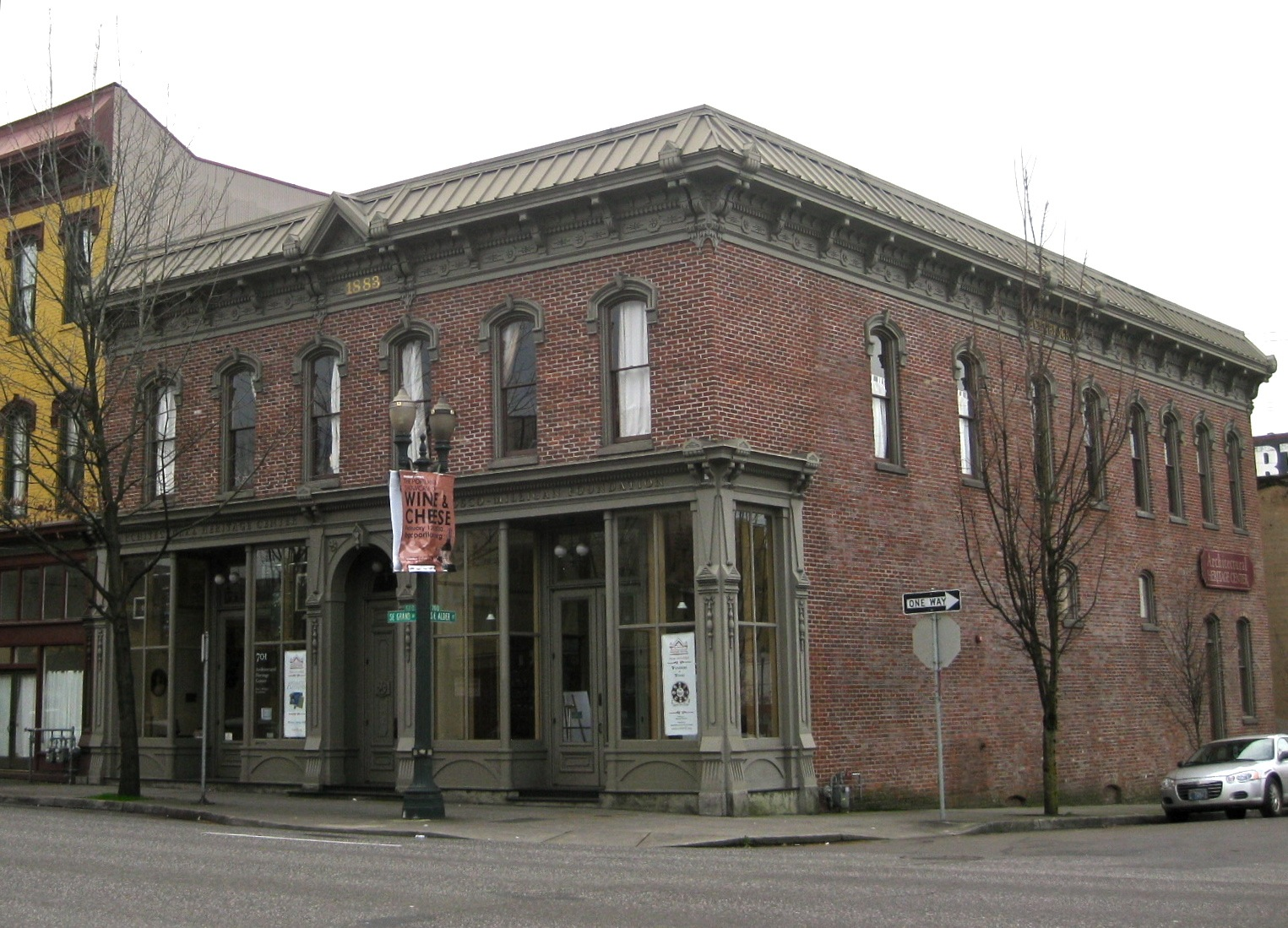 The historic West’s Block Building (built 1883) is located at the Grand Avenue Historic District of Portland, Oregon, United States, is listed on the US National Register of Historic Places (NRHP) and home of the Architectural Heritage Center.